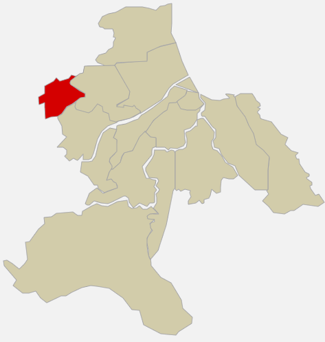 There was Toyosaki village until 1955. Now it is part of Hachinohe city.